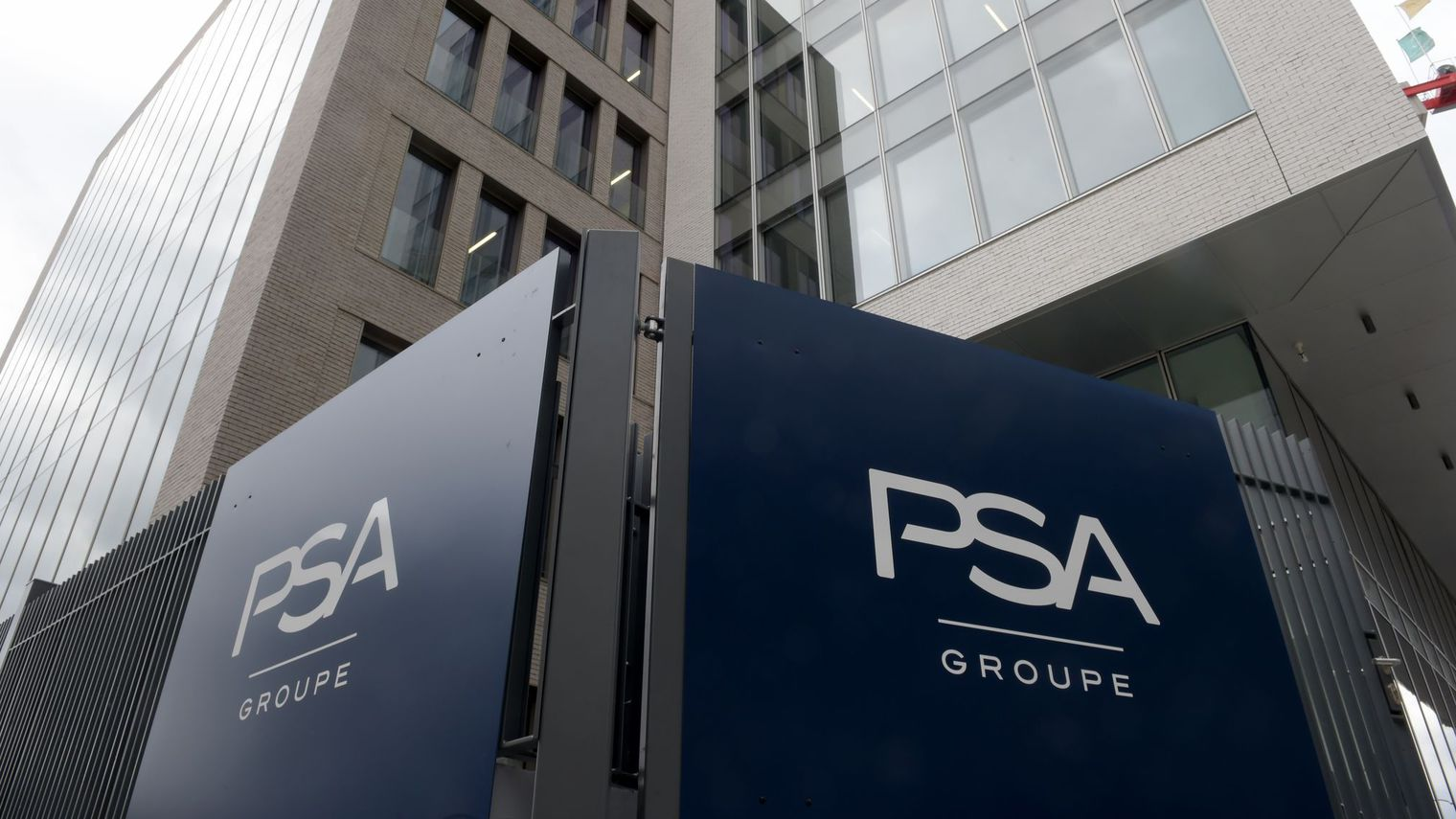 PSA Headquarters